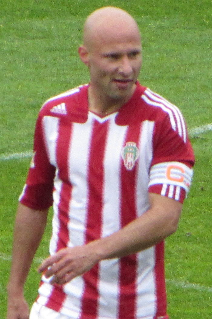 Marcel Šťastný of Viktoria Žižkov during the match against FC Zlín